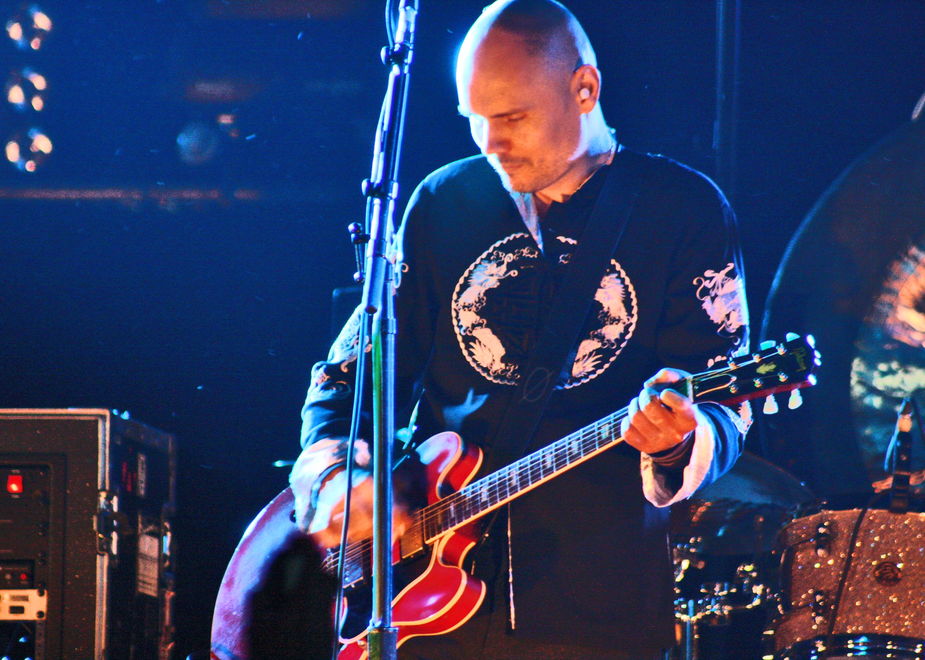 billy corgan en vivo